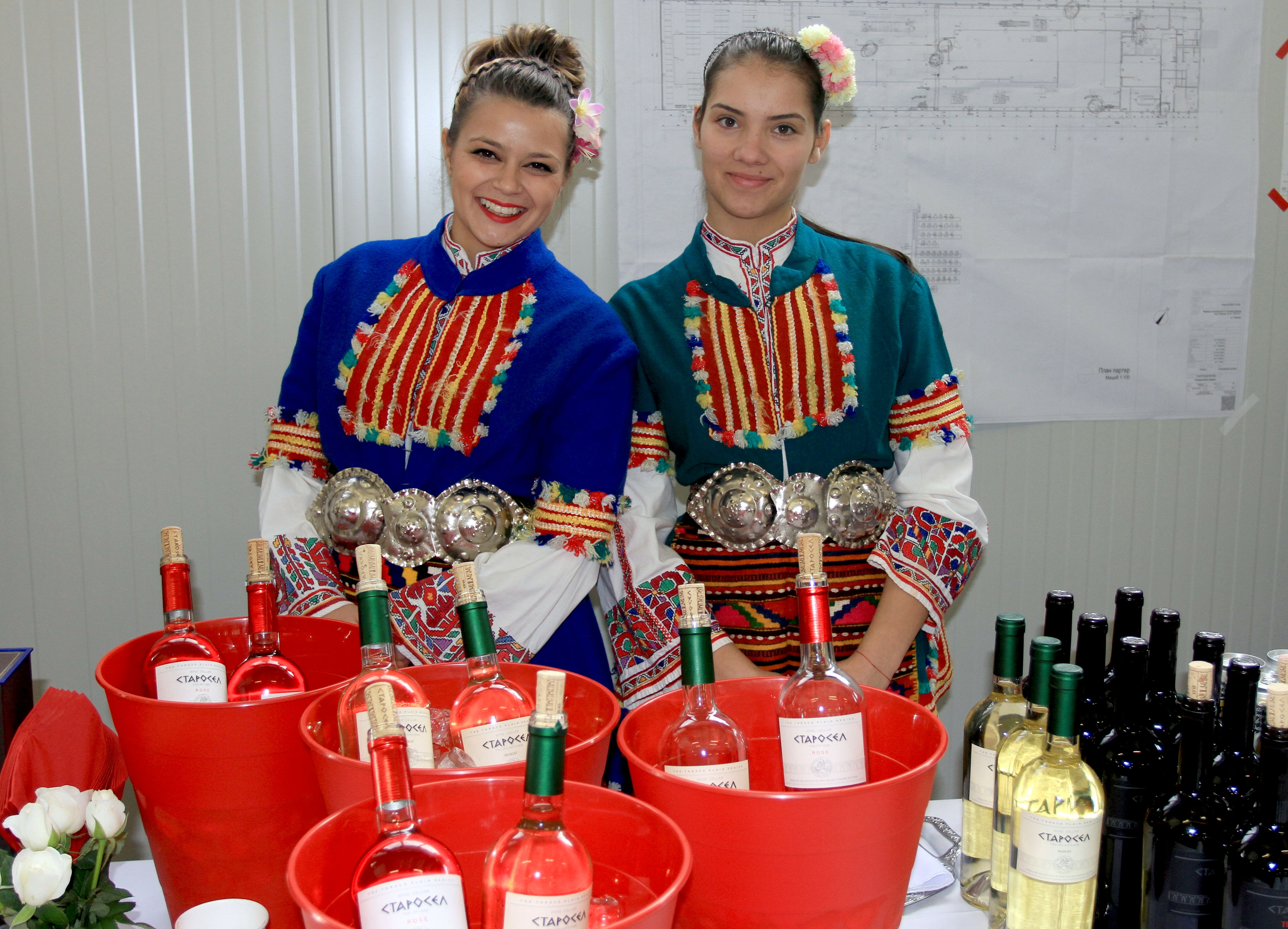 Bulgarian girls in national costumes This photo has been taken in the country: Bulgaria